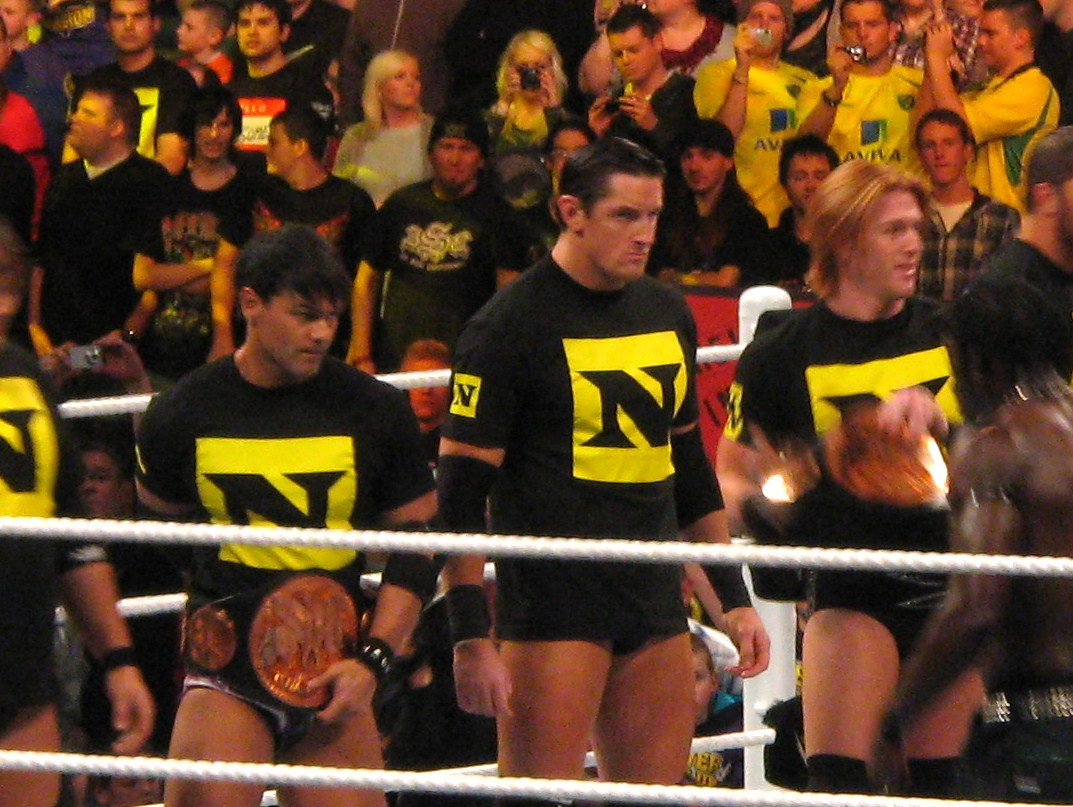 Members of The Nexus: Justin Gabriel (left), Wade Barrett (center) and Heath Slater (right) on Raw in November 2010. Gabriel and Slater are the WWE Tag Team Champions. Cropped from original.